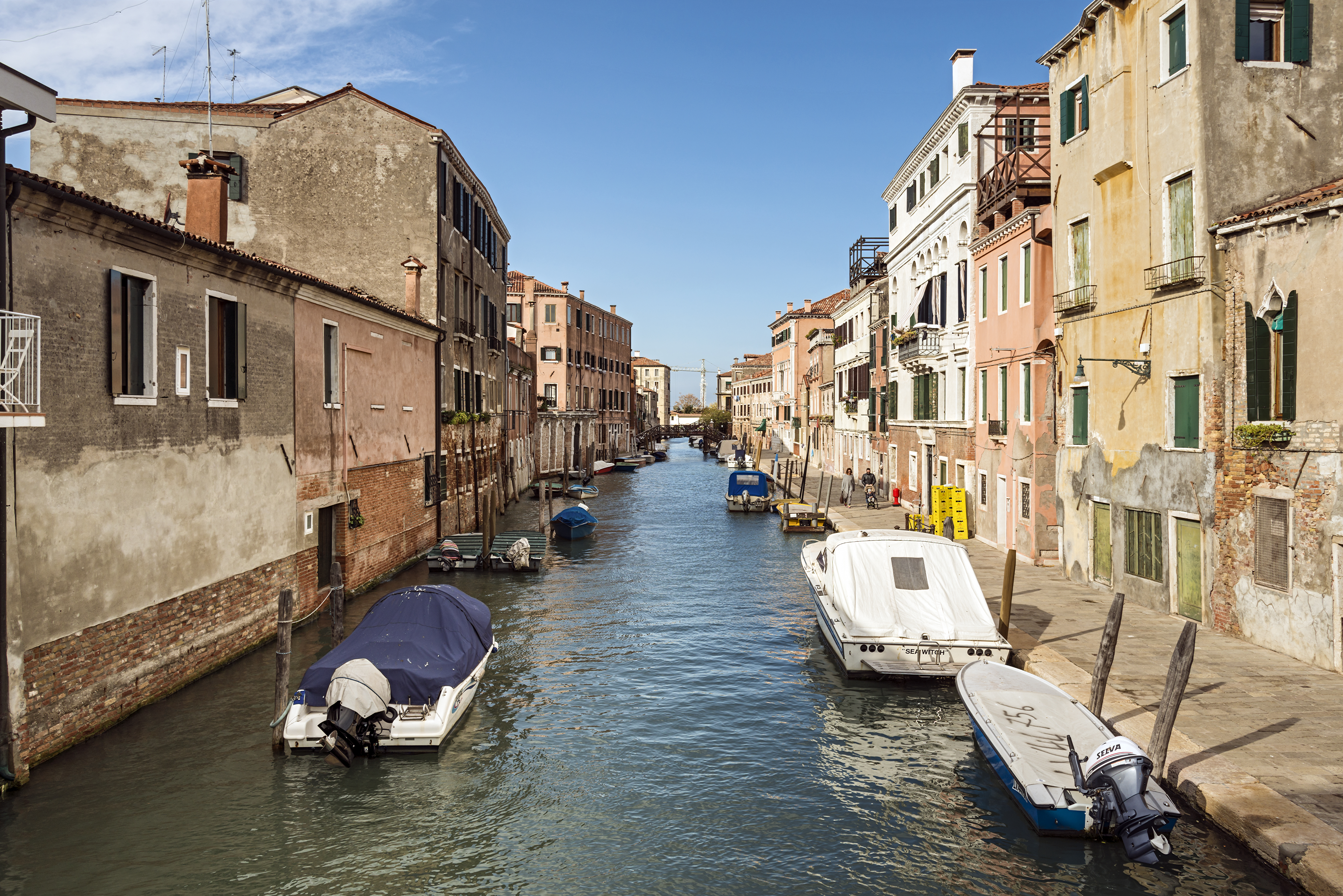 The "Rio della Sensa" on "Ponte de la Malvasia" to "Ponte Turlona" in Venice.